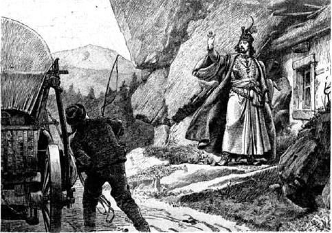 Mythological king Matjaž